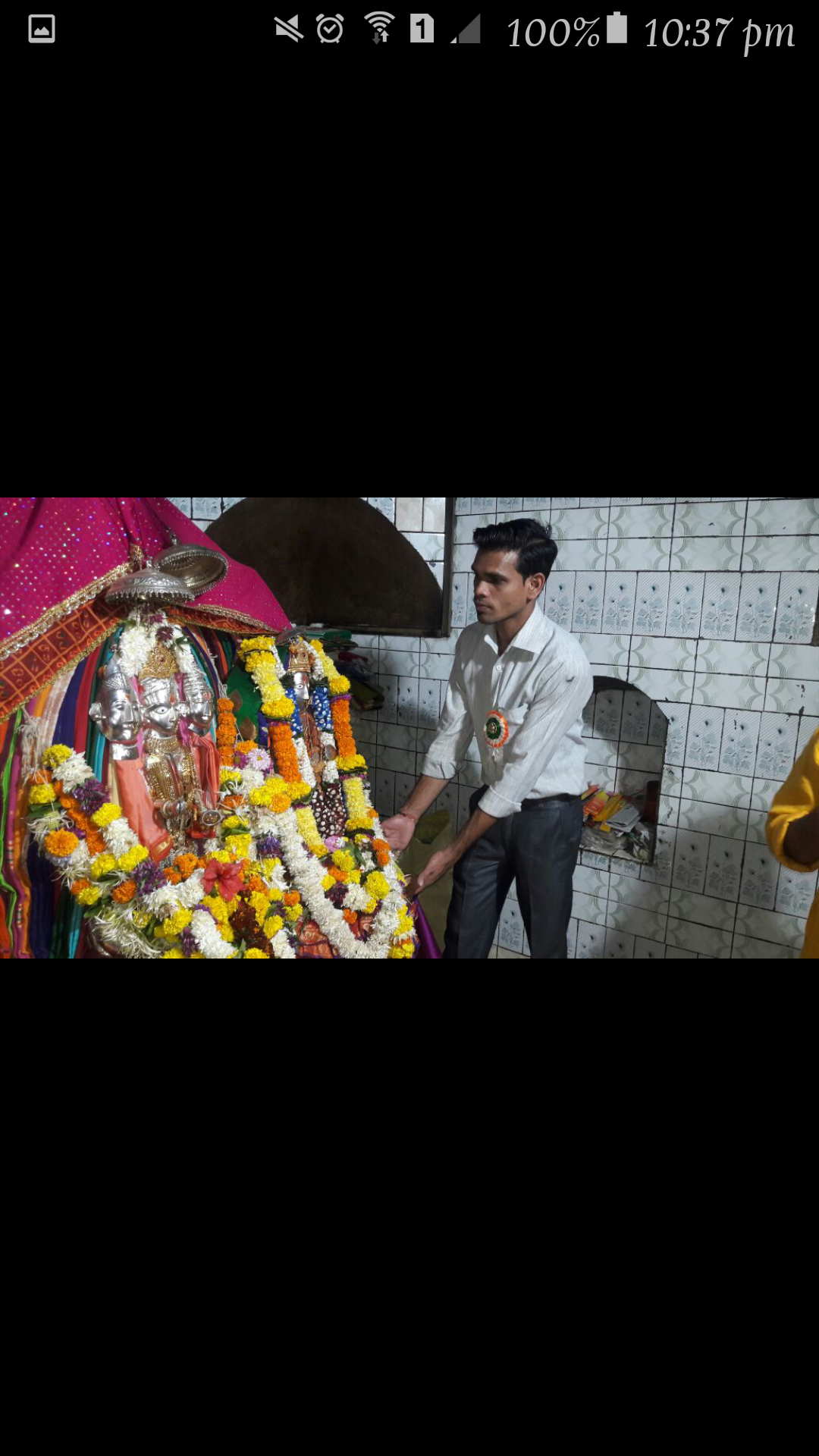 Aryadurga devi devihasol